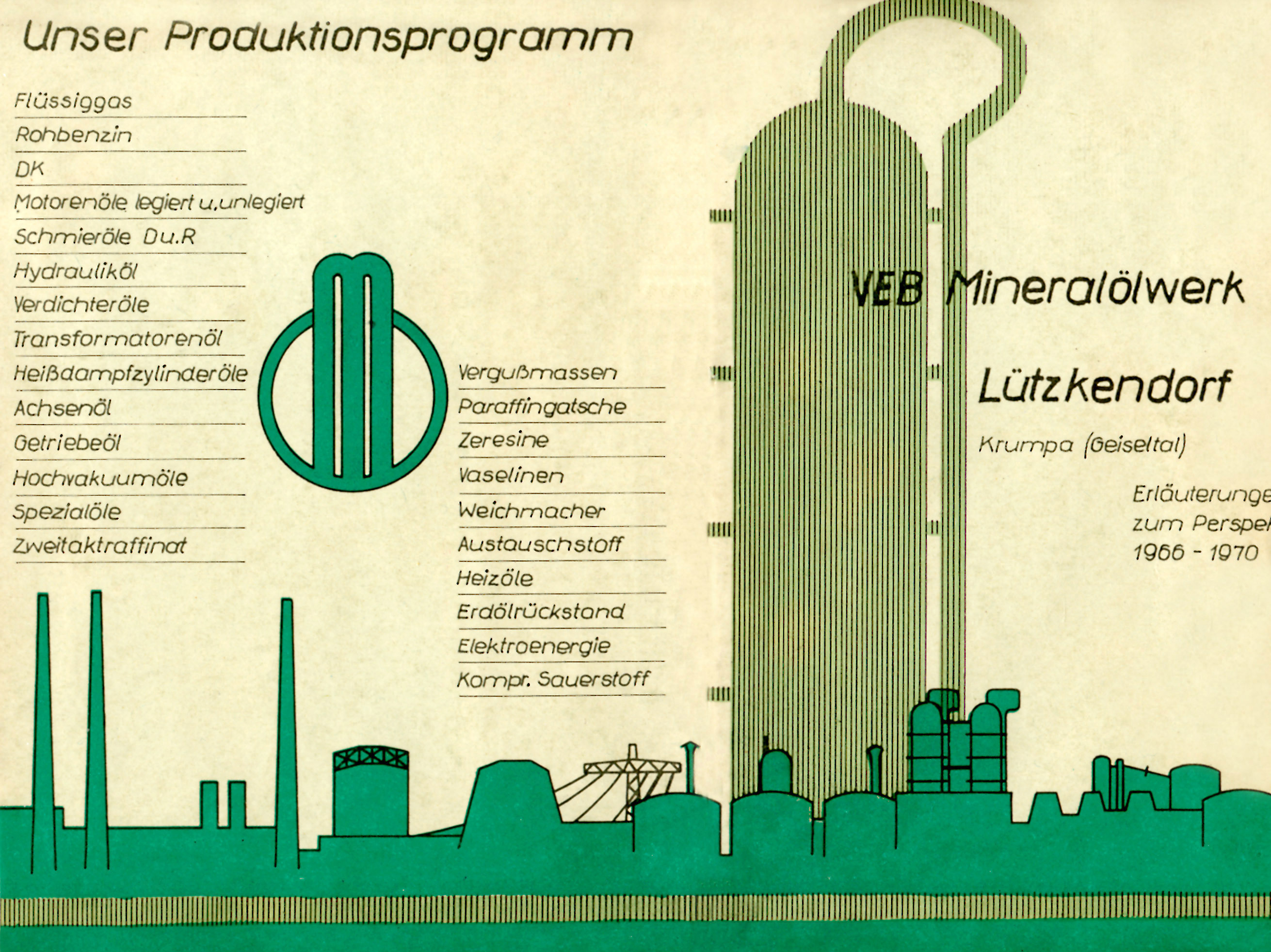 Zum 31.08.1966 DDR 4206 Krumpa (Geiseltal): VEB Mineralölwerk Lützkendorf (GMP: 51.295323,11.857894 ). Werksprospekt, Produktionsprogramm. Nach der Wende in den 1990er Jahren abgerissen. 19660831100AR.JPG/Blobelt